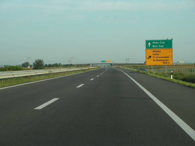 A motorway exit on motorway A2 in Serbia